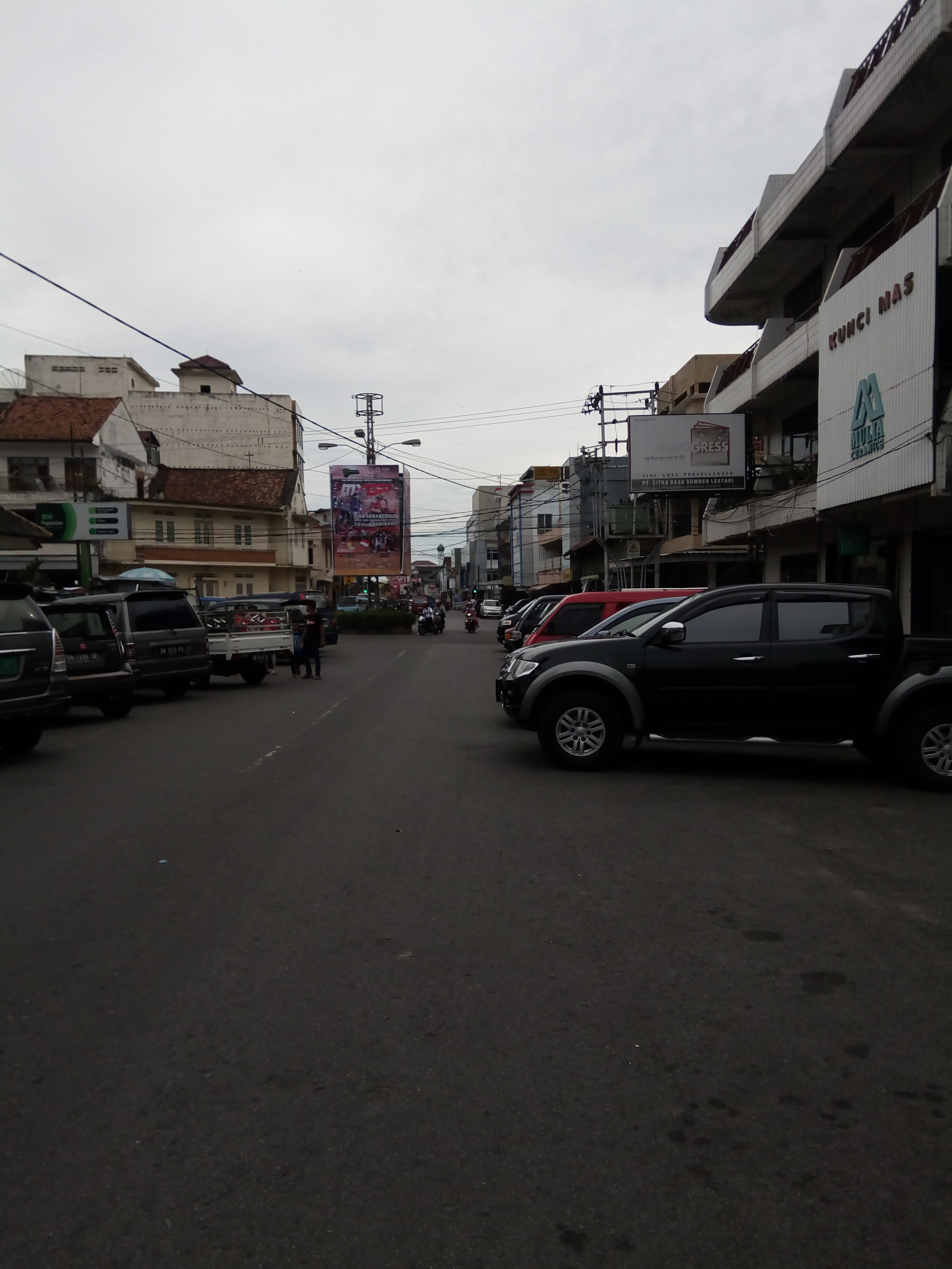 Afternoon in Jalan Pegadaian, Pangkalpinang, Bangka.